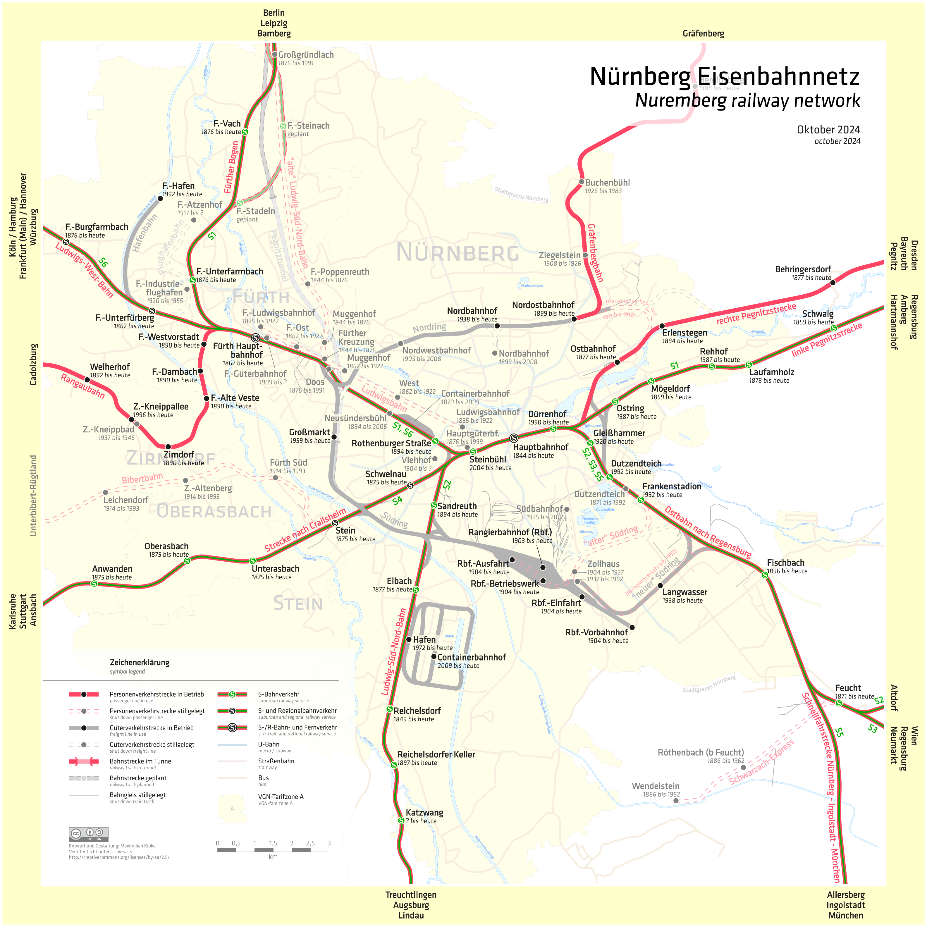 railway network of nuremberg